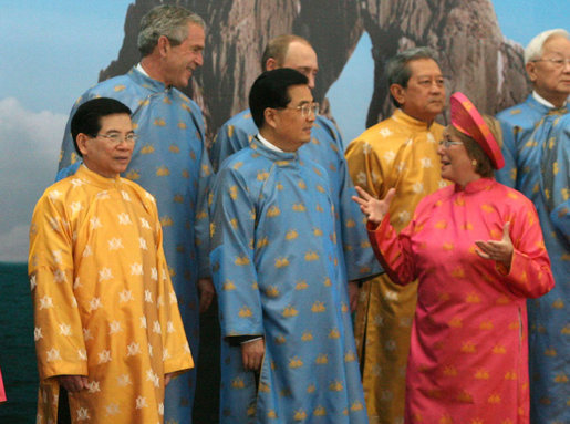 President George W. Bush shares a light moment with Chile's President Michelle Bachalet as APEC leaders posed for an official portrait Sunday, Nov. 19, 2006, before adjourning the 2006 APEC Summit in Hanoi. White House photo by Eric Draper